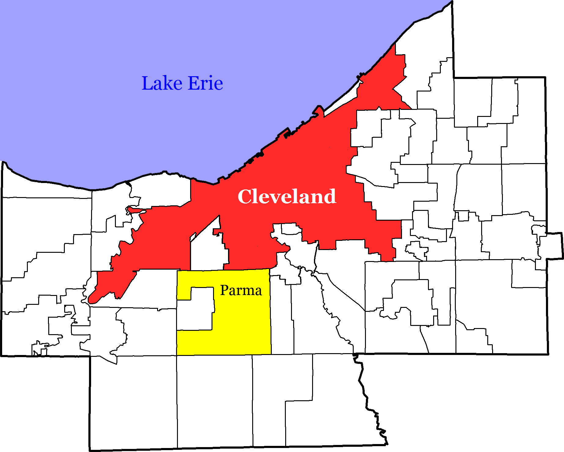 Area of cities of Cleveland and Parma, Ohio, United States.